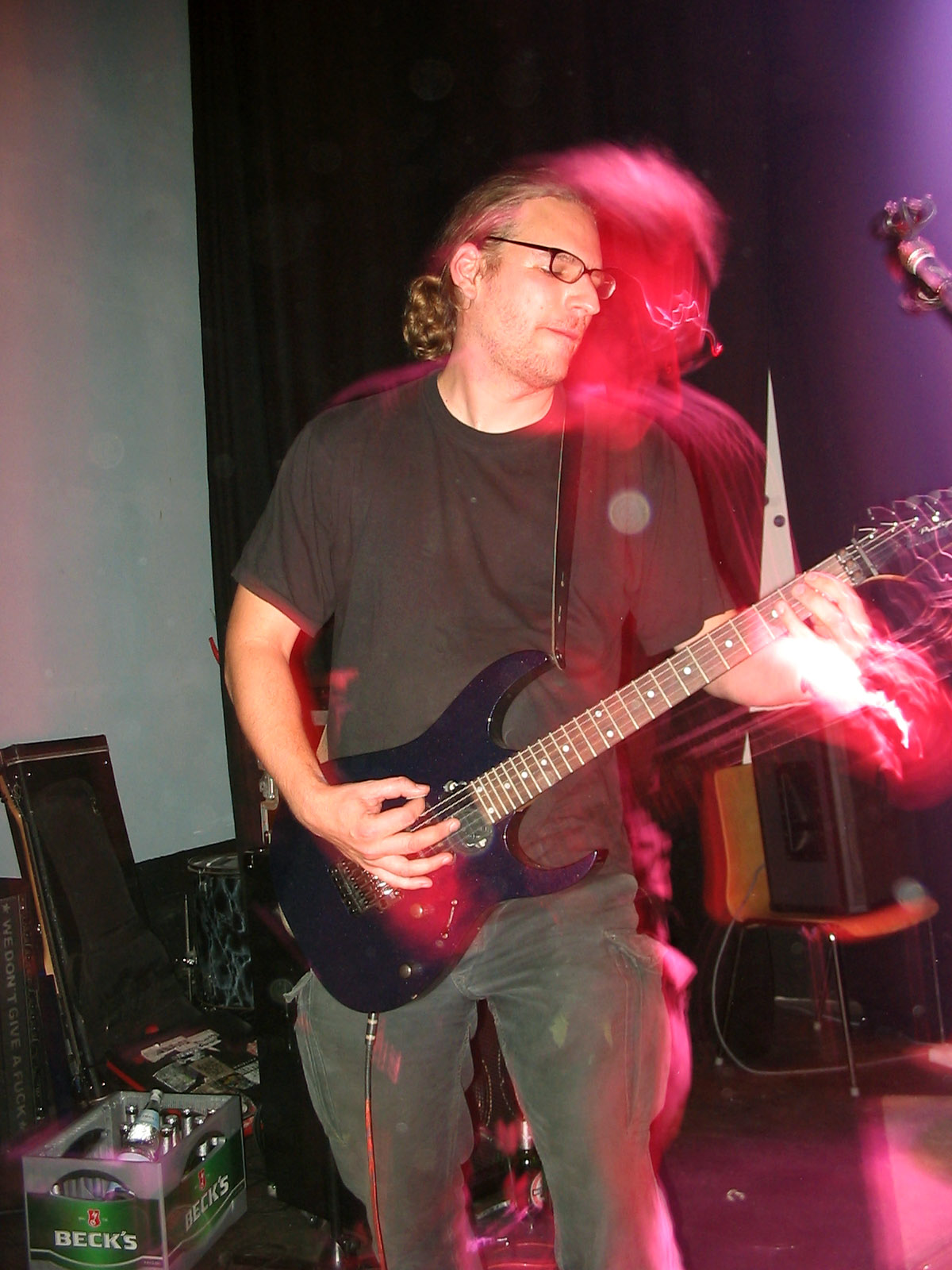 Klaus Nicodem, member of the grindcore band "Japanische Kampfhörspiele" at a concert in Wunstorf, Germany on September 28th 2004